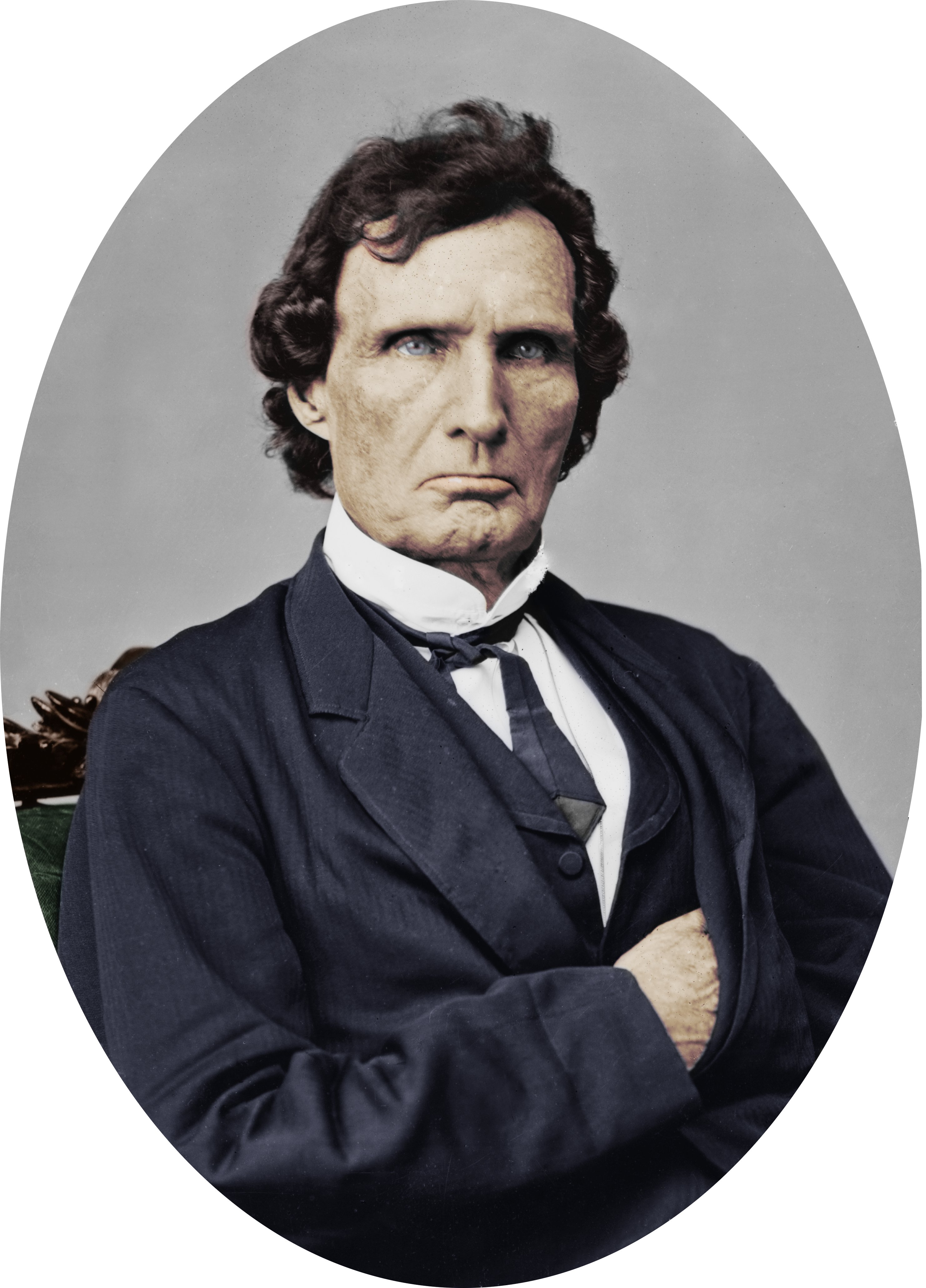 Thaddeus Stevens. Color added by Scewing based on description here